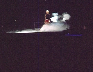 Madonna opening the show with Substitute for Love on the Drowned World Tour